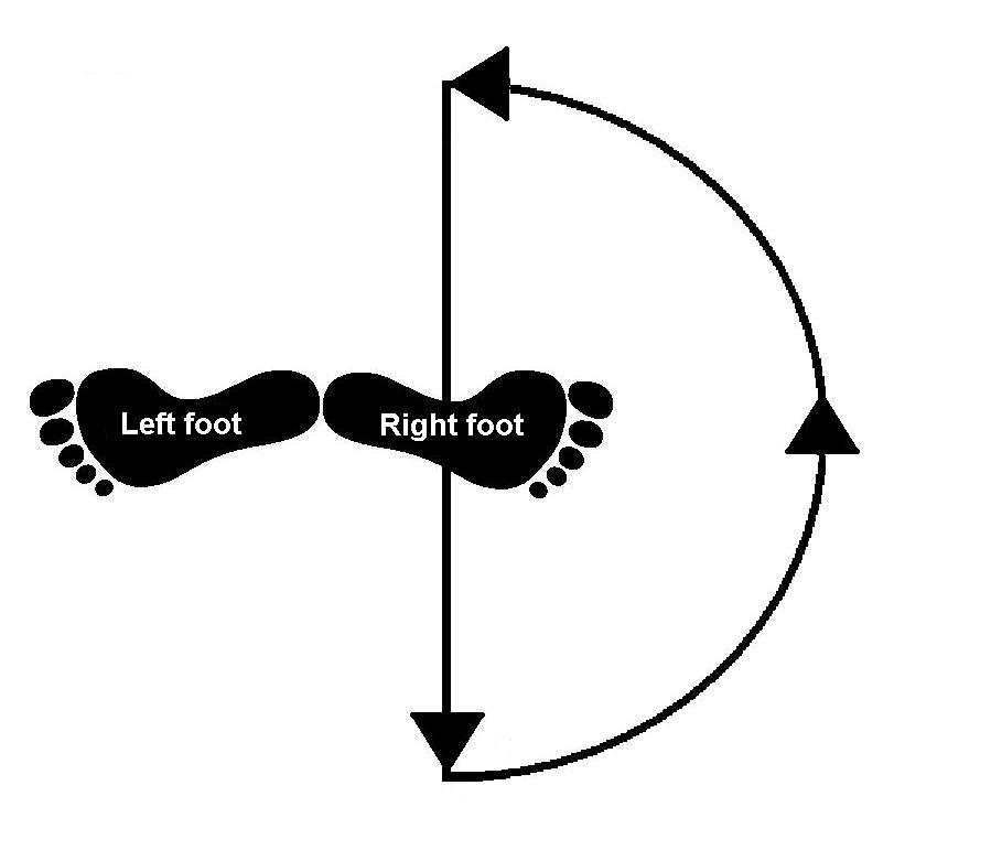 priciple of rond de jambe par terre en dedans (ballet movement)